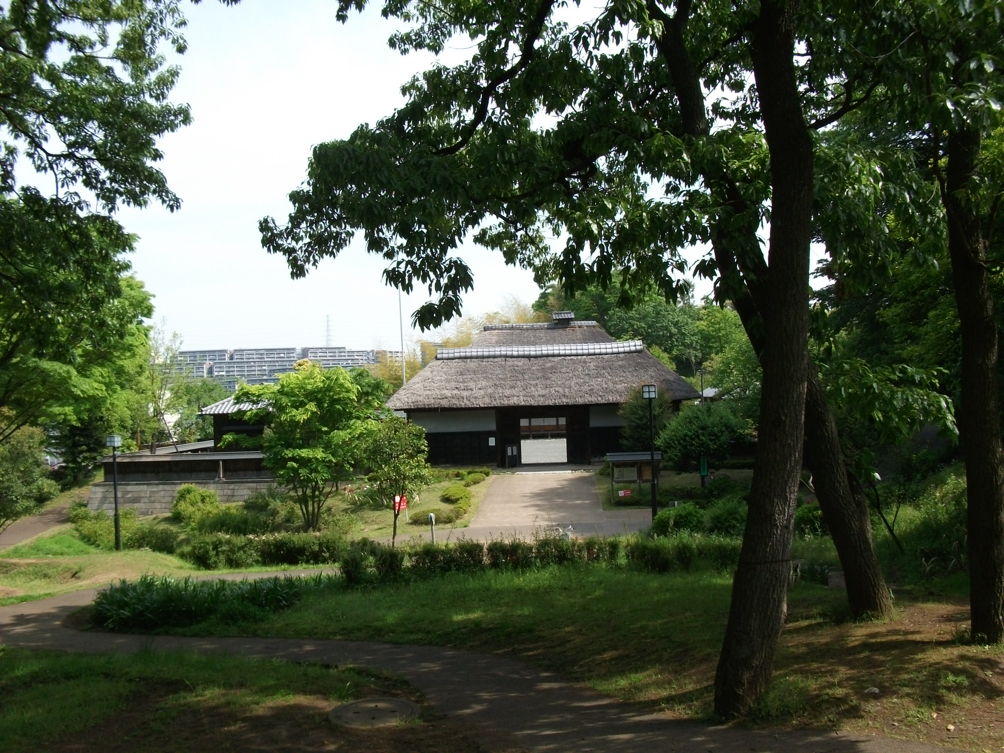 Hongō Fujiyama Park (Yokohama, Japan)